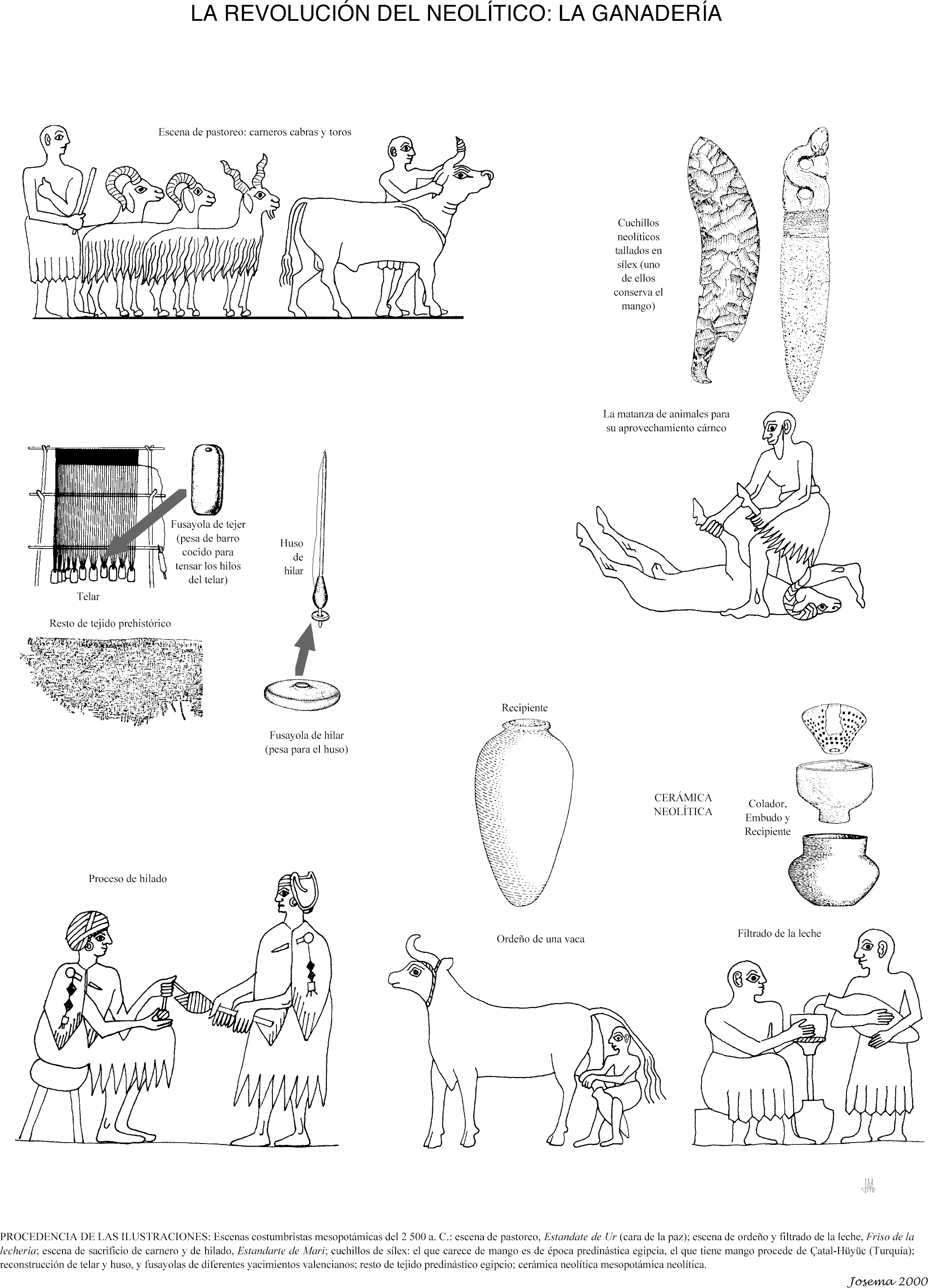 Scheme of commons task in cattle-raising during Neolithic Age in relation with its tools. I have choose mesopotamian figures and authentic prehistoric tools of several archaeological sites.